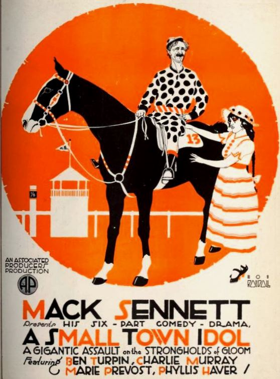 Advertisement for the American comedy film A Small Town Idol with likenesses of Ben Turpin and Phyllis Haver, from the insert after page 18 of the March 5, 1921 Exhibitors Herald.